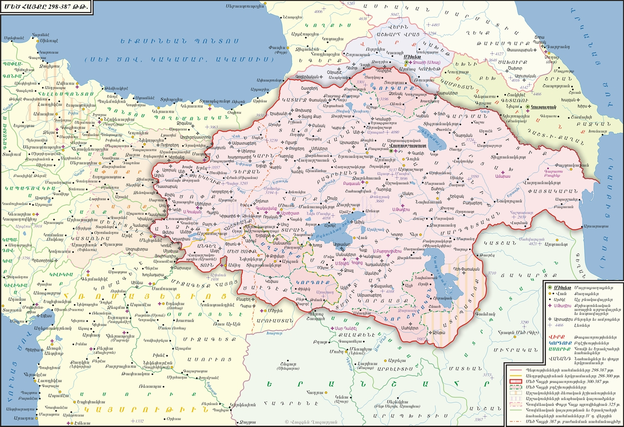 Arshakid_Armenia